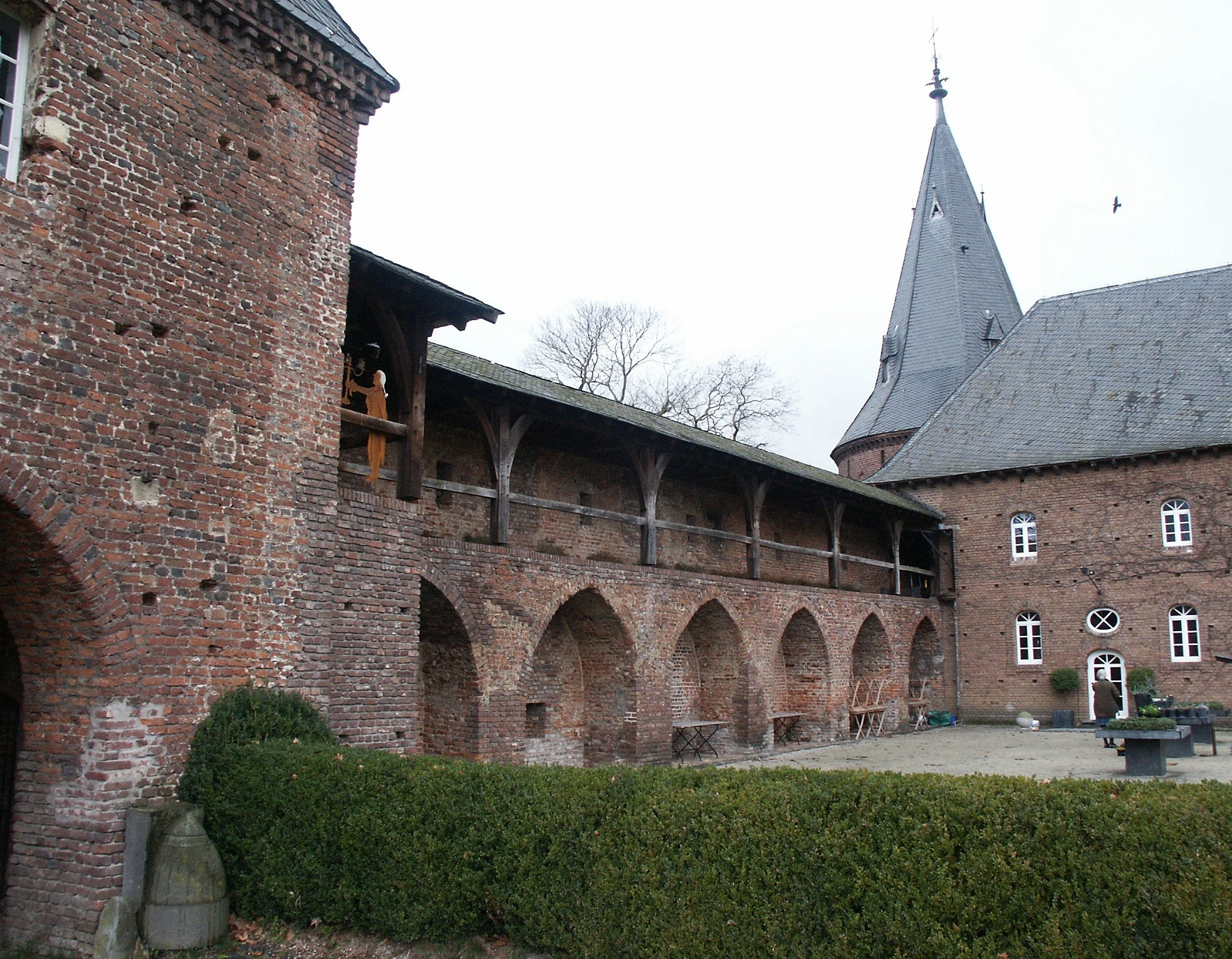 Haag Castle – battlement parapet at the west side